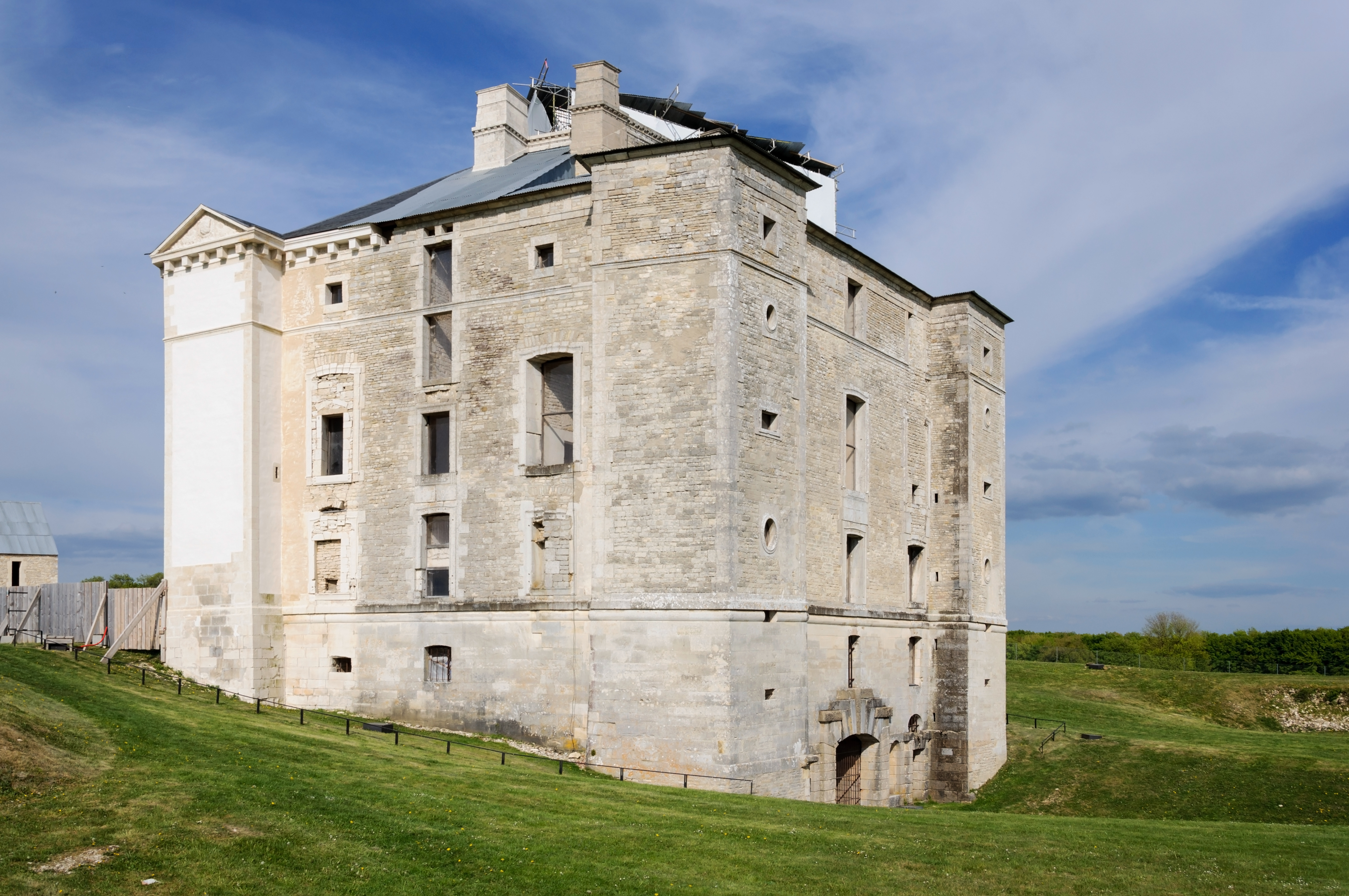 The Château de Maulnes in Cruzy-le-Châtel, Burgundy, France, being restored: south west and south facades.